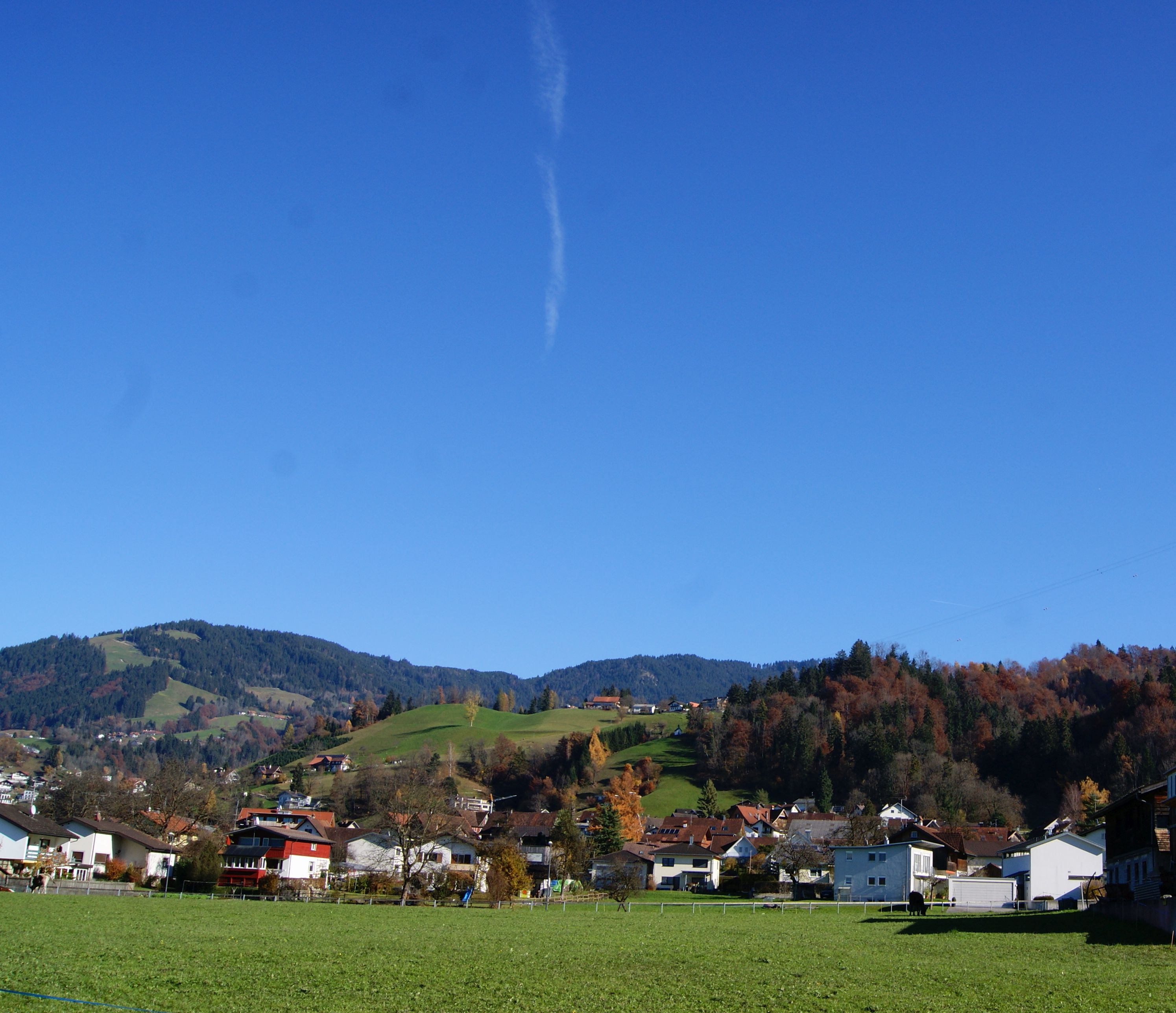 Hill Buergle in Dornbirn, Vorarlberg, Austria. Left in the background "Schwende".